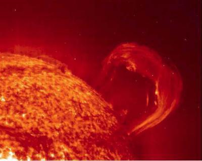 An image of A Coronal Mass Ejection with the surrounding cloud visible.